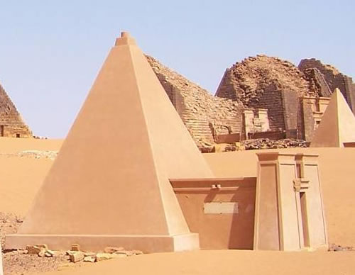 Pyramids of Meroe in Sudan. N27